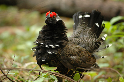 Falcipennis canadensis sbsp. Franklin´s